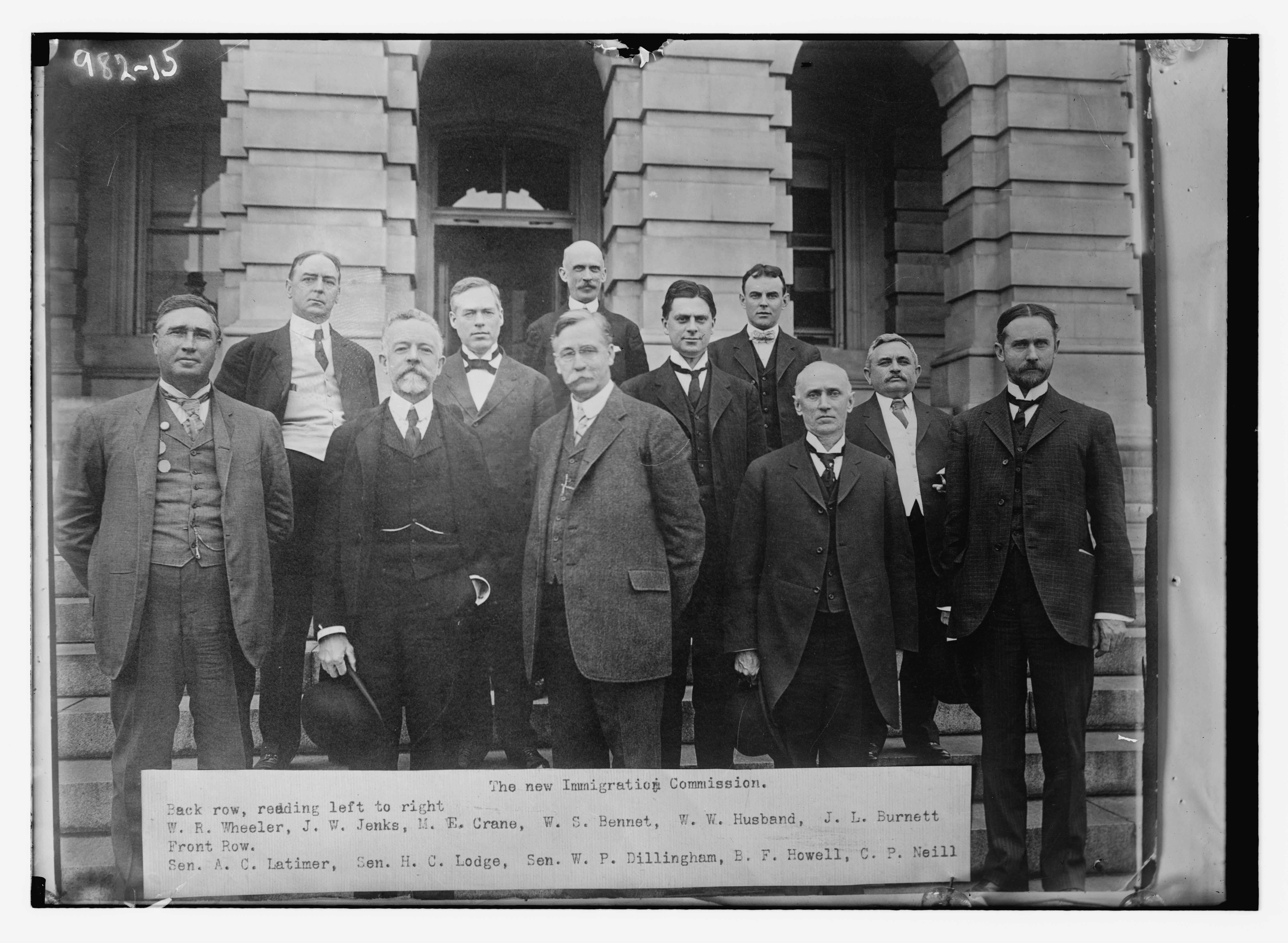 Title: Men of the New Immigration Commission posing for picture Abstract/medium: 1 negative : glass ; 5 x 7 in. or smaller.